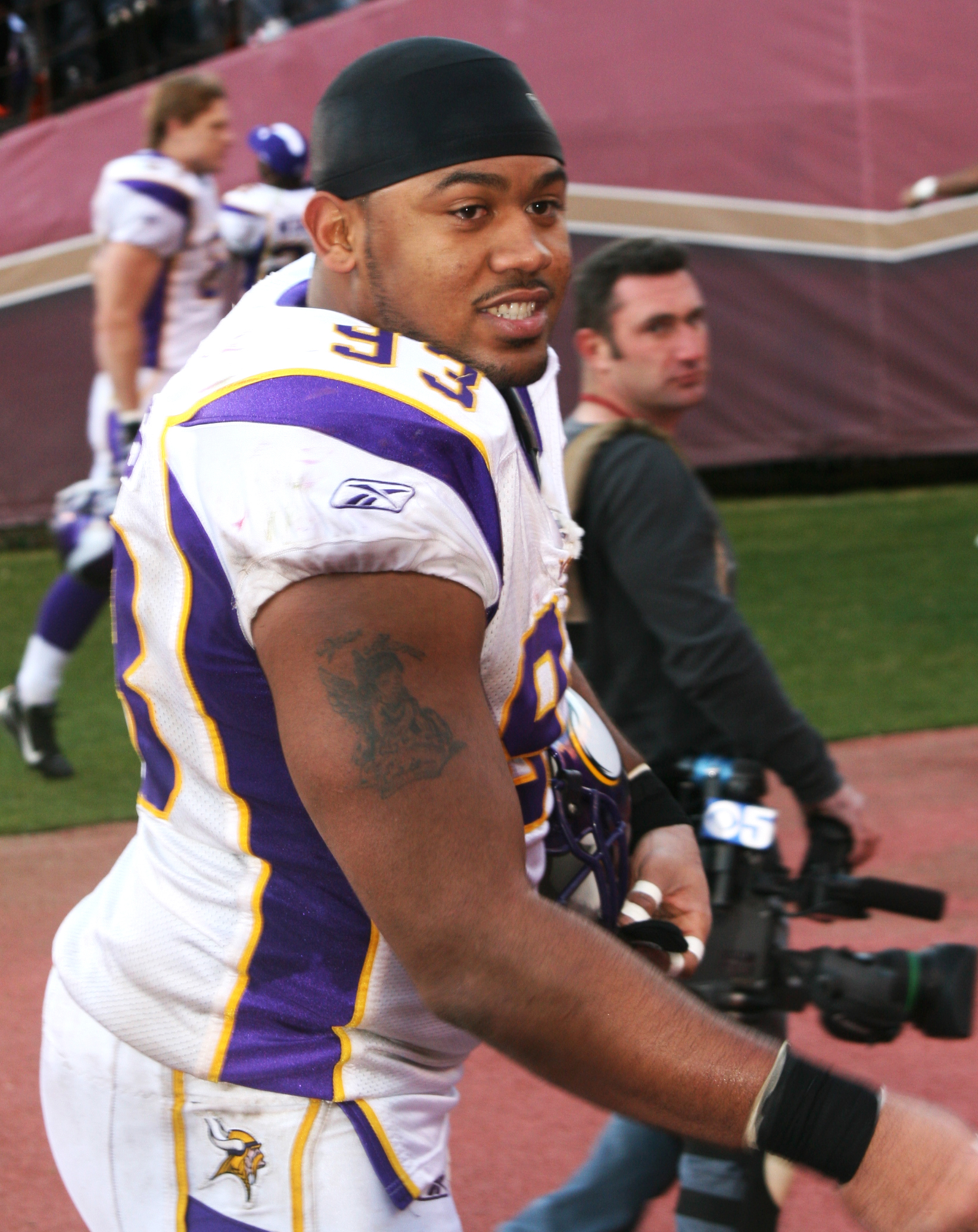 Minnesota Vikings defensive tackle Kevin Williams before a 2007 game in San Francisco against the 49ers: "this is right before he gave my friend dave his left glove" (Ford)